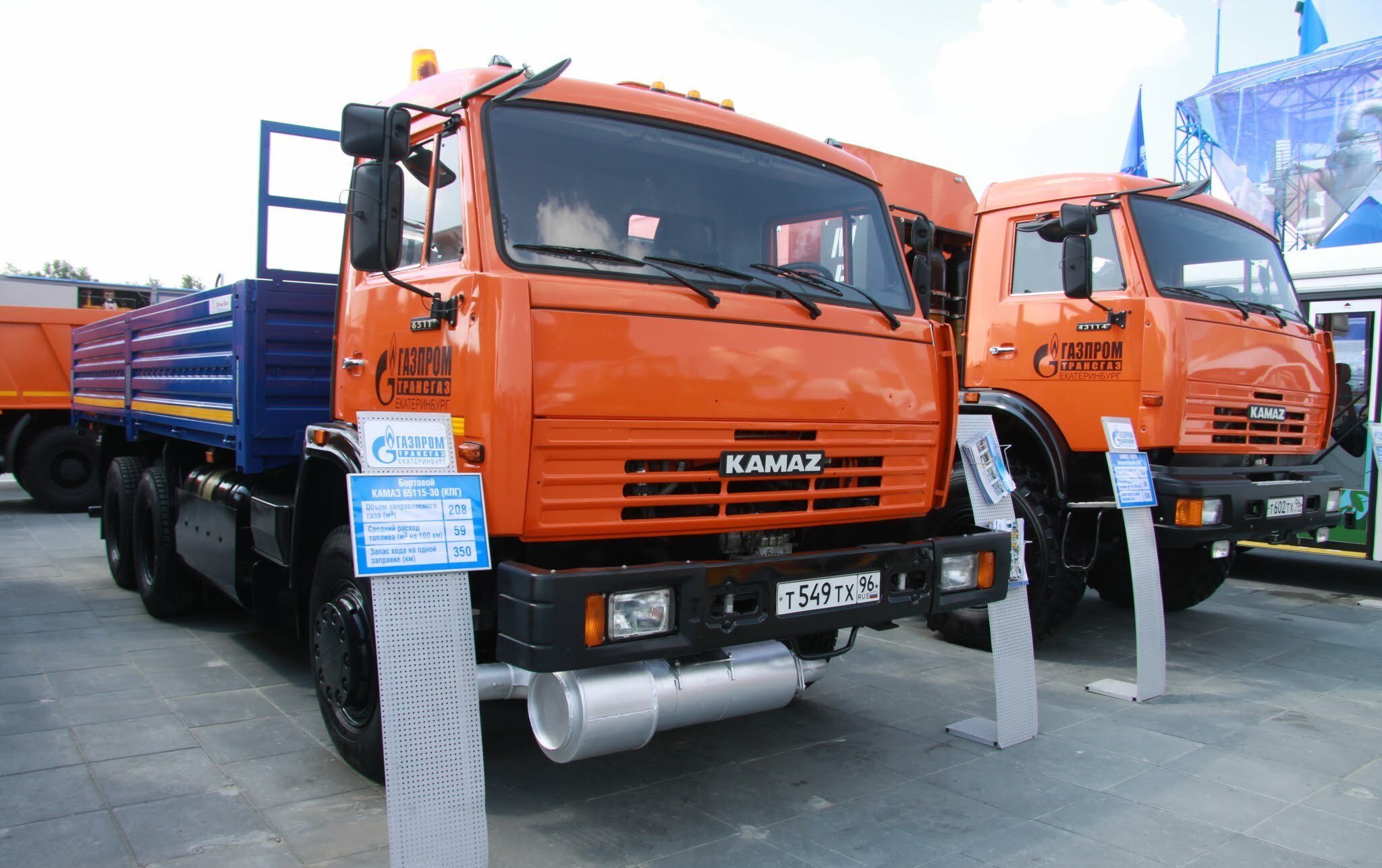 Innoprom 2012